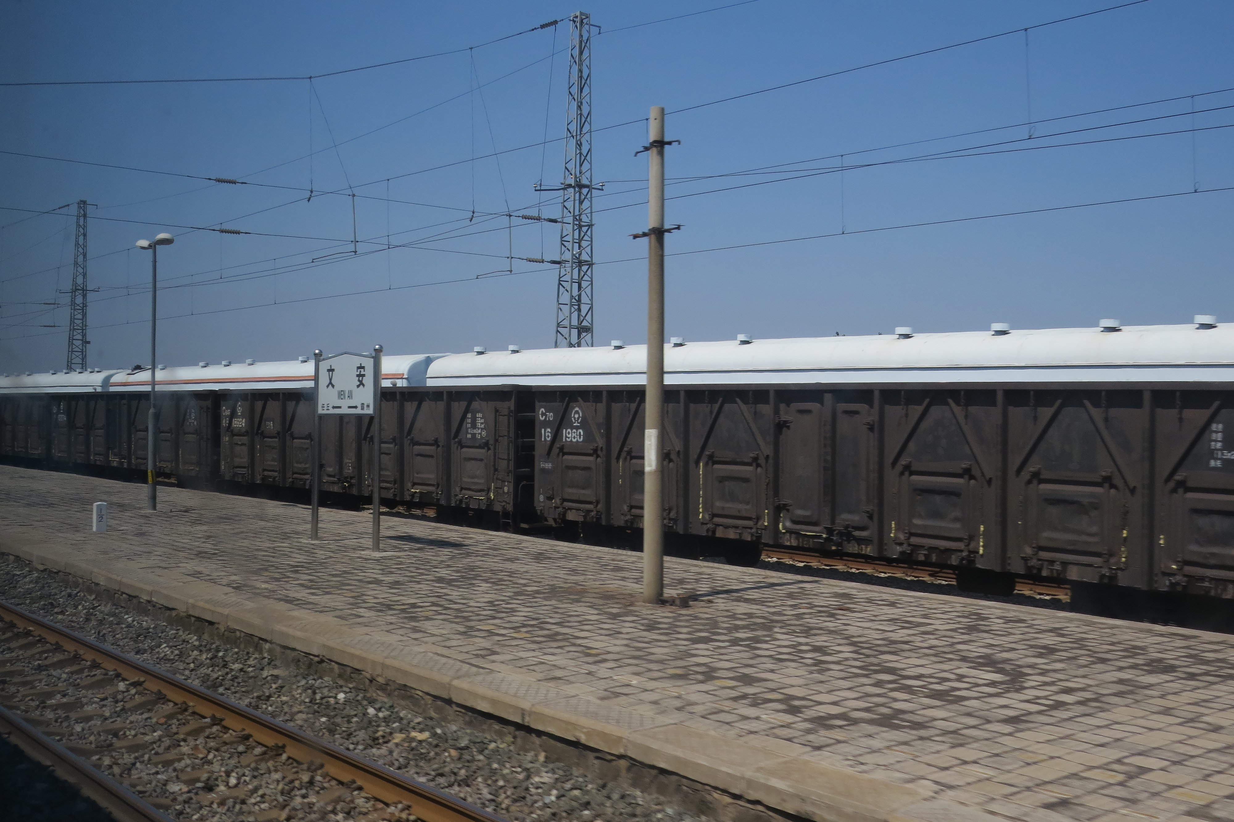 No passenger service.